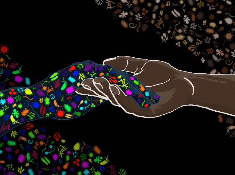 a visual depiction of the holobiont: a human and its microbiome